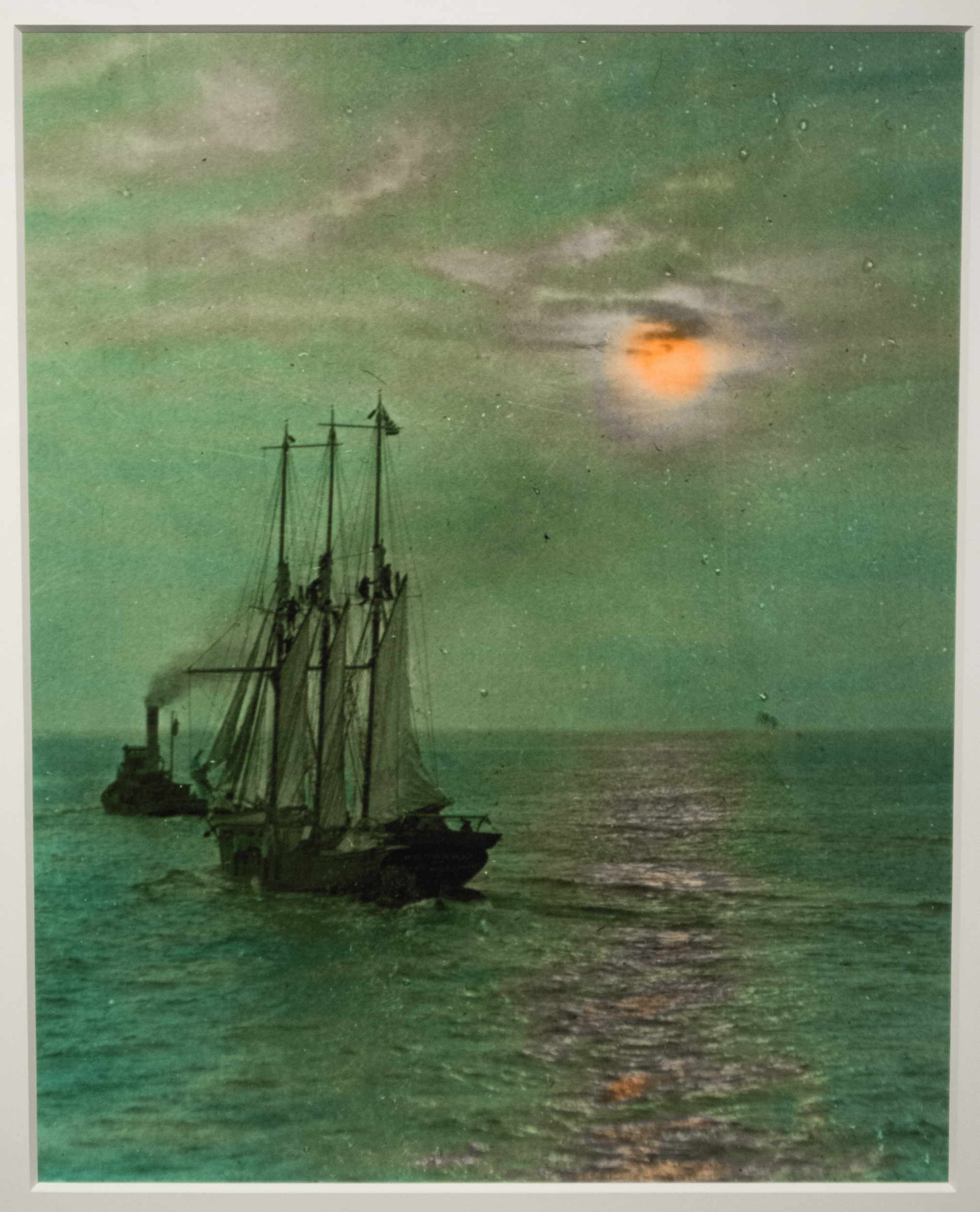 Photograph of a tugboat towing the Blossom from Long Island to Connecticut. Part of the exhibit "Sailing for Science: The Voyage of the Blossom", hosted by the Cleveland Museum of Natural History in Cleveland, Ohio, in the United States. The three-masted sailing ship Blossom left Connecticut in the United States for Africa, the South Atlantic, and South America on a specimen collecting expedition in 1922. The voyage was sponsored by the Cleveland Museum of Natural History. The ship returned in 1926 with more than 12,000 specimens.